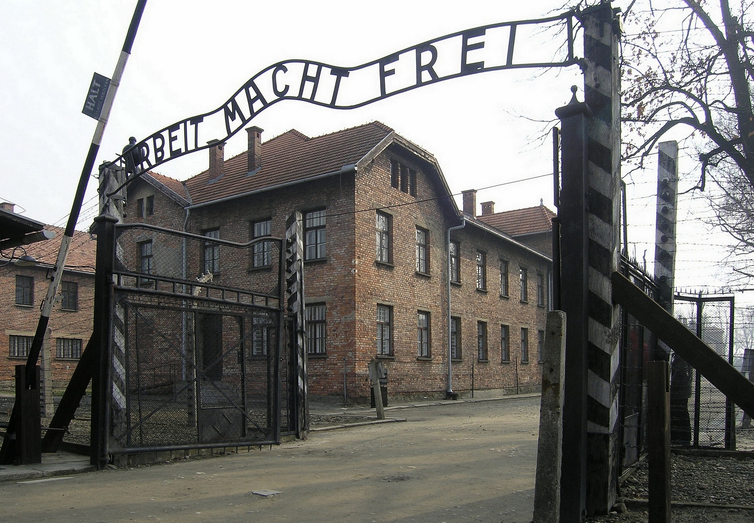 Auschwitz I Camp, Main Gate, Arbeit macht frei (2007), Oswiecim, Poland